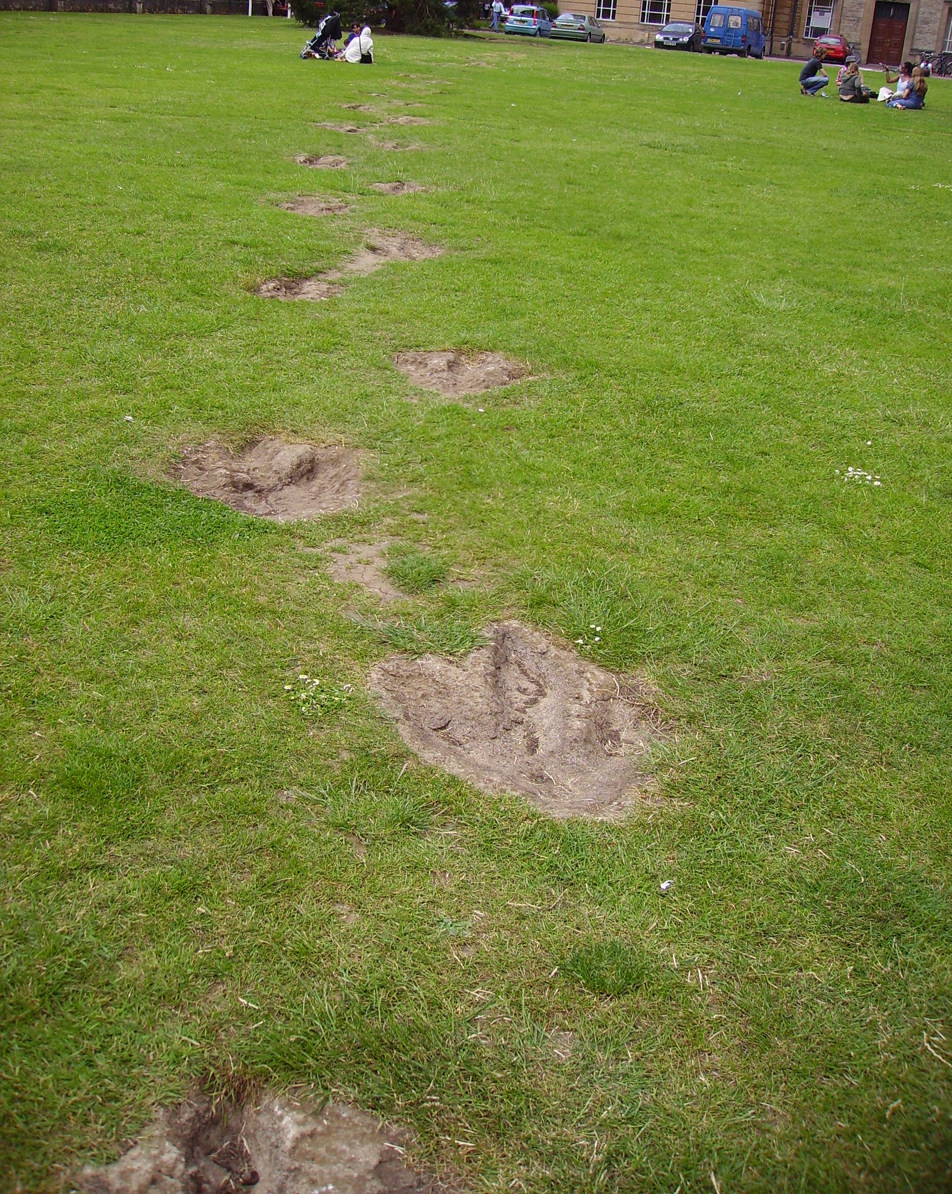 Megalosaurus foot prints reconstructed on OUMNH lawn